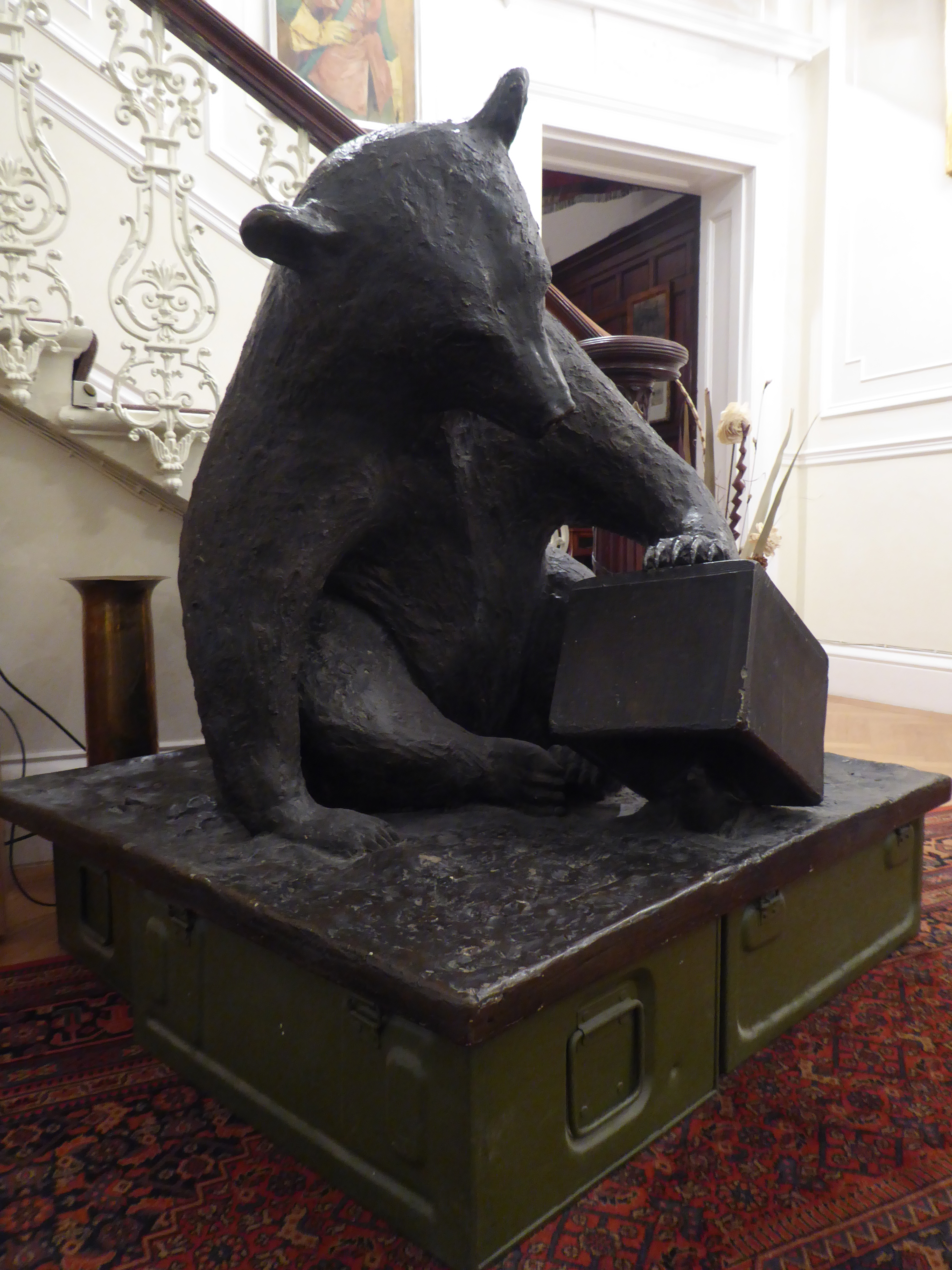 A sculpture of Wojtek the soldier bear, by artist David Harding, on display in the Polish Institute and Sikorski Museum, London.